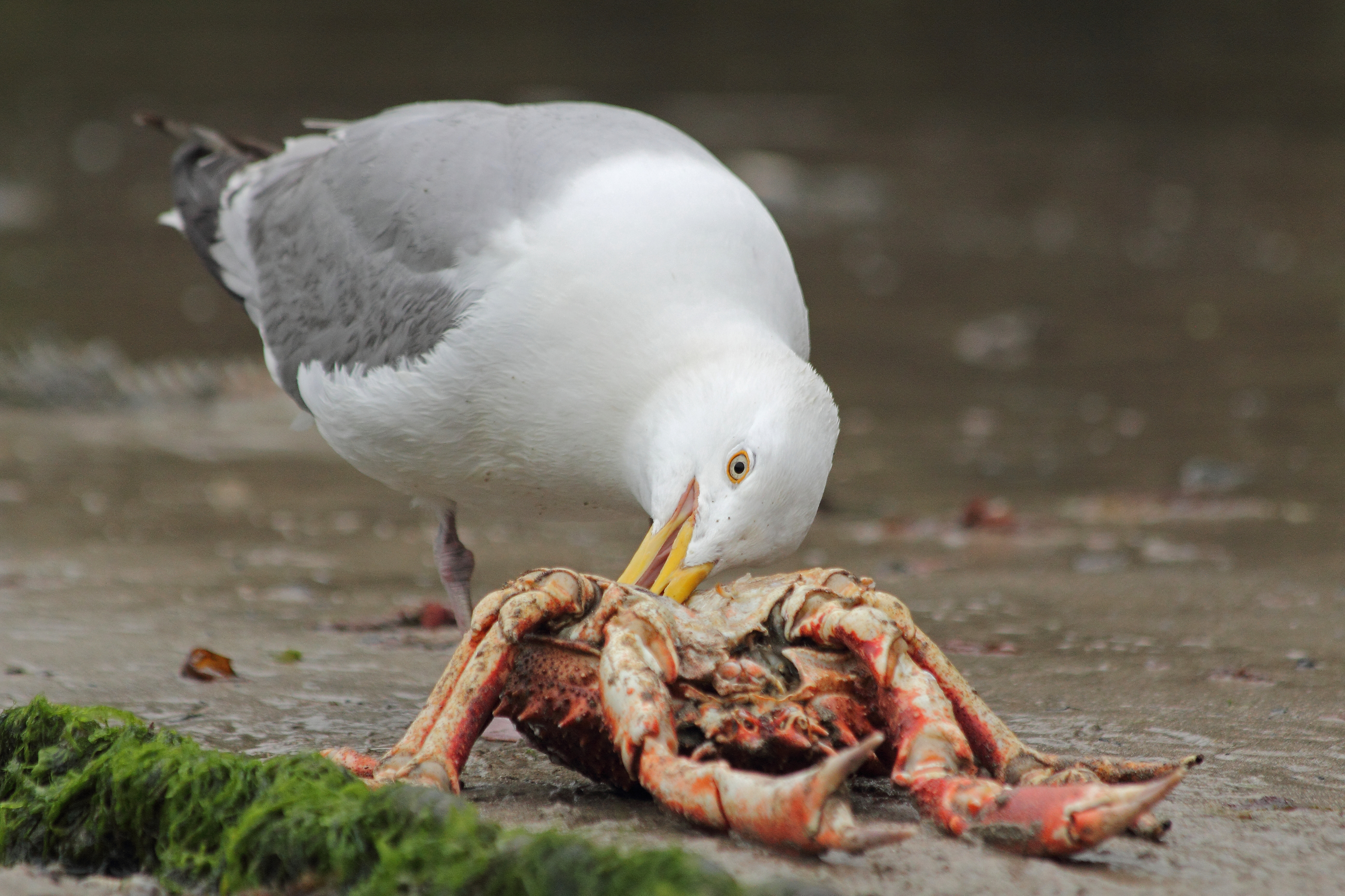 Latin name Larus argentatus Family Gulls (Laridae) Overview Herring gulls are large, noisy gulls found throughout the year around our... Where to see them ... When to see them All year round. What they eat Ominivorous - a scavenger.